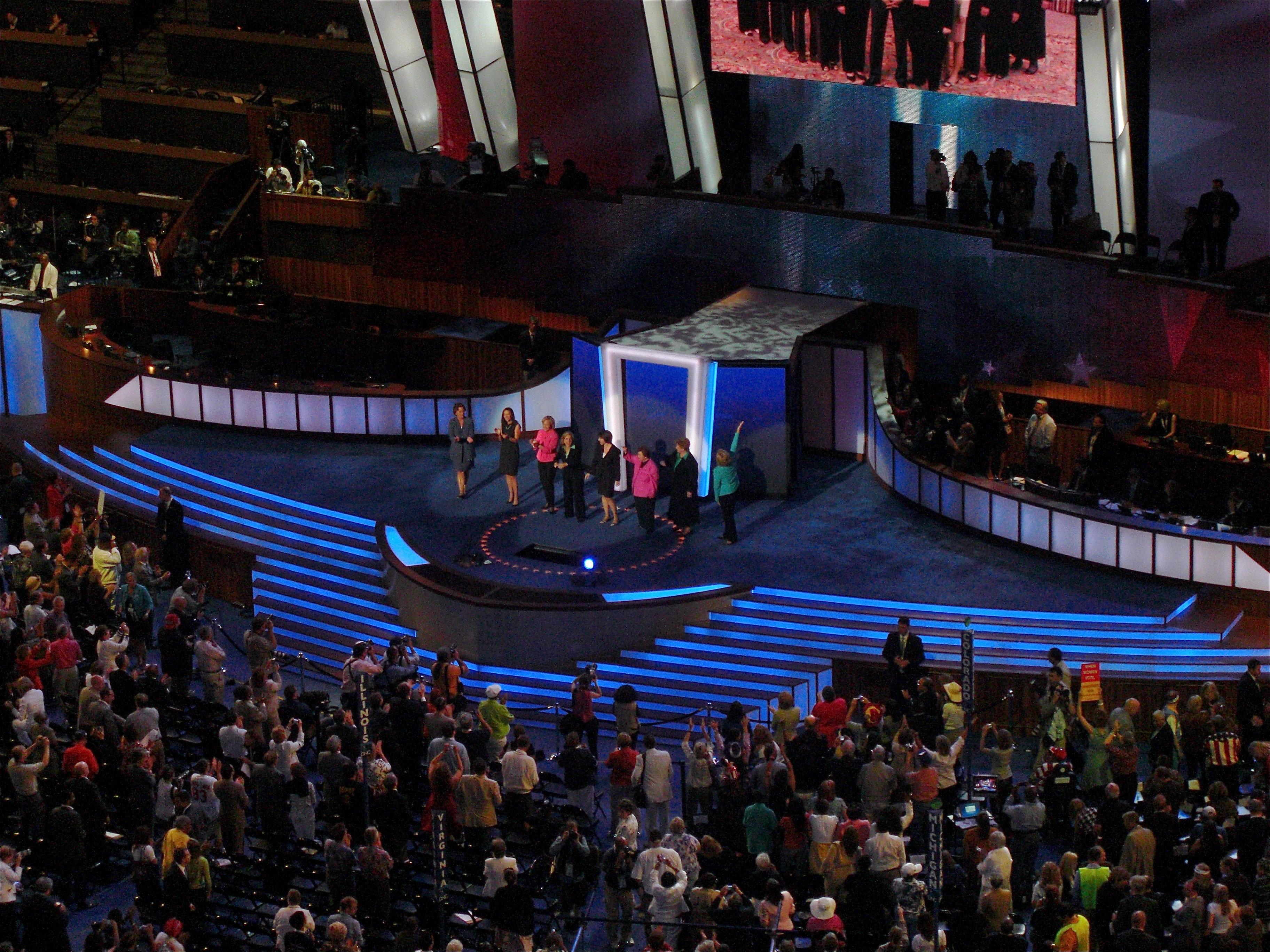 Democratic female U.S. Senators gesture to the crowd following their individual speeches during the second day of the 2008 Democratic National Convention in Denver, Colorado, United States. Absent are Hillary Clinton (who appeared separately as a headlining speaker), Patty Murray (who was attending her daughter's wedding), and Diane Feinstein (who was prohibited from traveling due to a broken ankle)